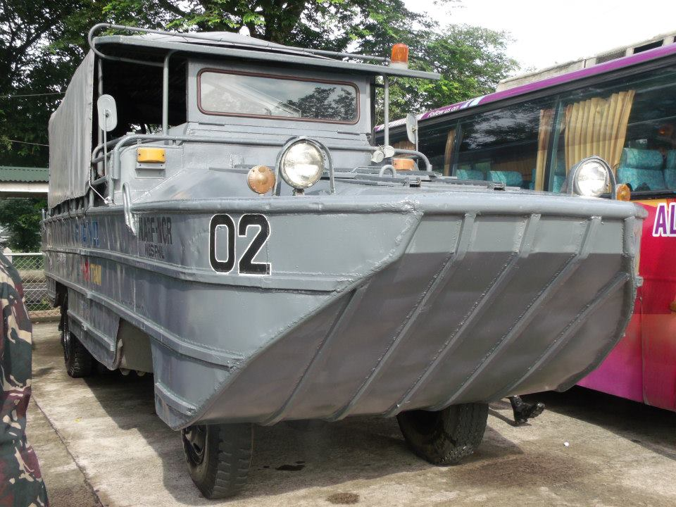 DUKW assigned with a Naval Affiliate Reserve Unit of the Naval Reserve Command.